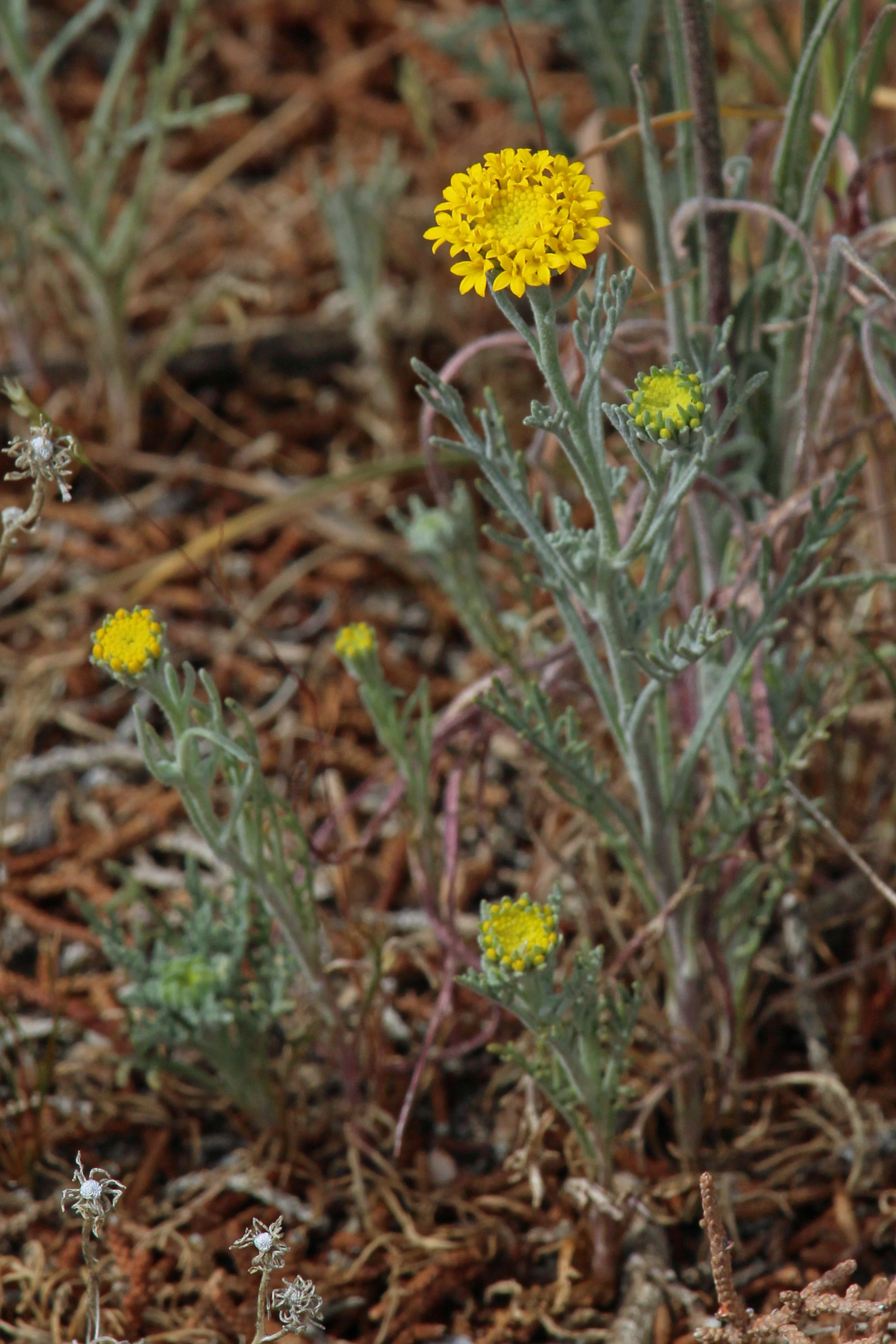 Yellow Pincushion Identification by: Linda Edwards and Vern Benhart Viewpoint location: Arthur B. Ripley Desert Woodland State Park, Lancaster, California Viewpoint elevation: 897 meter (2943 ft) Location source: Garmin GPSmap 60CSx Location Datum: WGS84